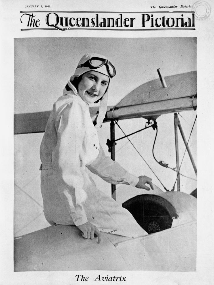 Author/Creator: Unidentified. Location: Queensland, Australia. Description: Woman aviator dressed in overalls and goggles taken in the cockpit of an aeroplane for the front cover of The Queenslander Pictorial 1936. View this image at the State Library of Queensland: : Information about State Library of Queensland’s collection: You are free to use this image without permission. Please attribute State Library of Queensland.